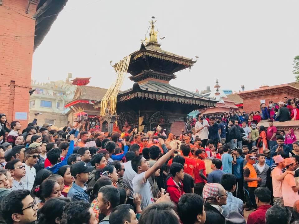 Siddhikali Jatra celebrated on Baisakh 1st every year. Generally we called it Biska Jatra of Thimi